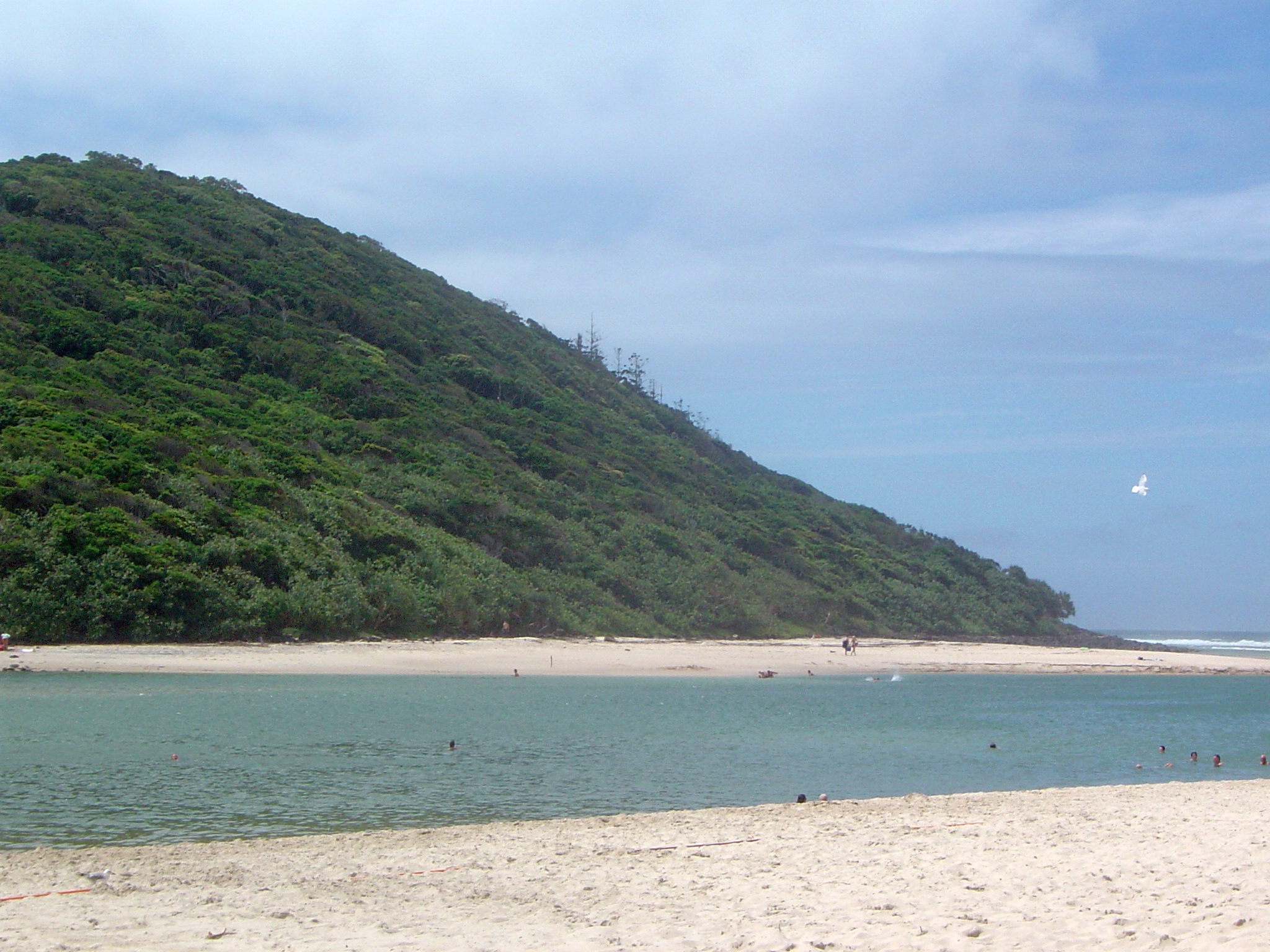 Photo of Burleigh Headland and Tallebudgera Creek